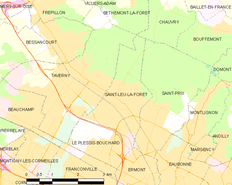 Map of French municipality Saint-Leu-la-Forêt